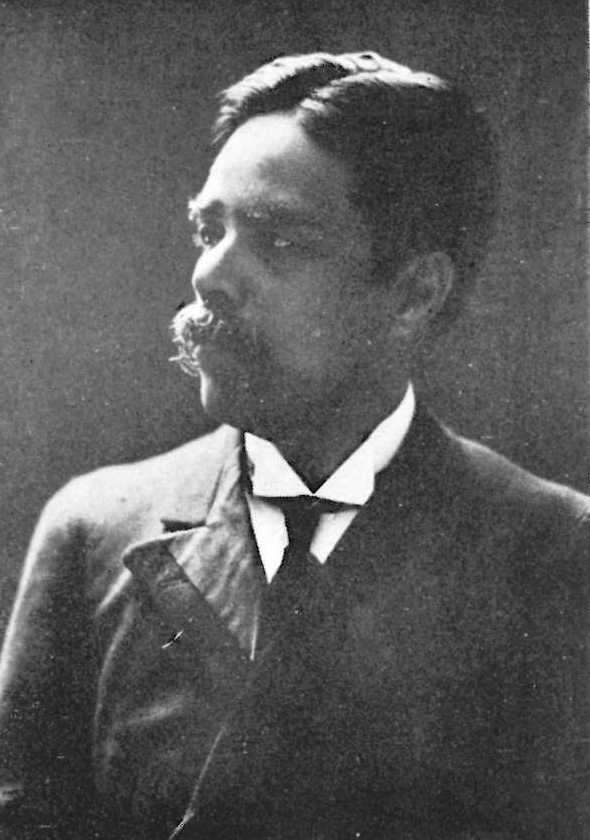 Kanzo Uchimura